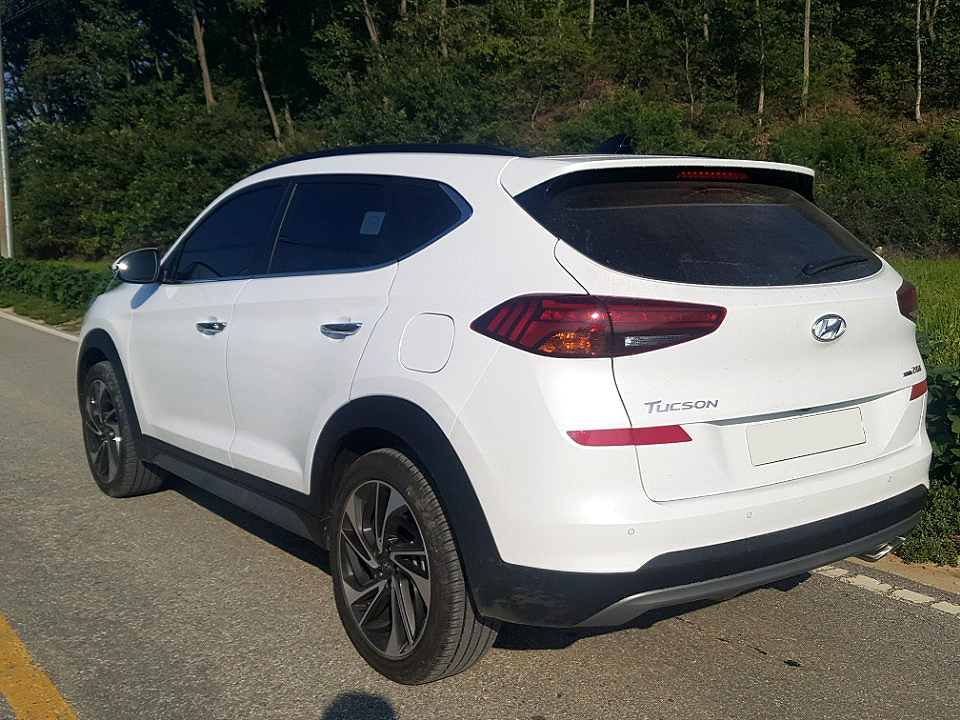 Hyundai All New Tucson(2019) Rear-Side